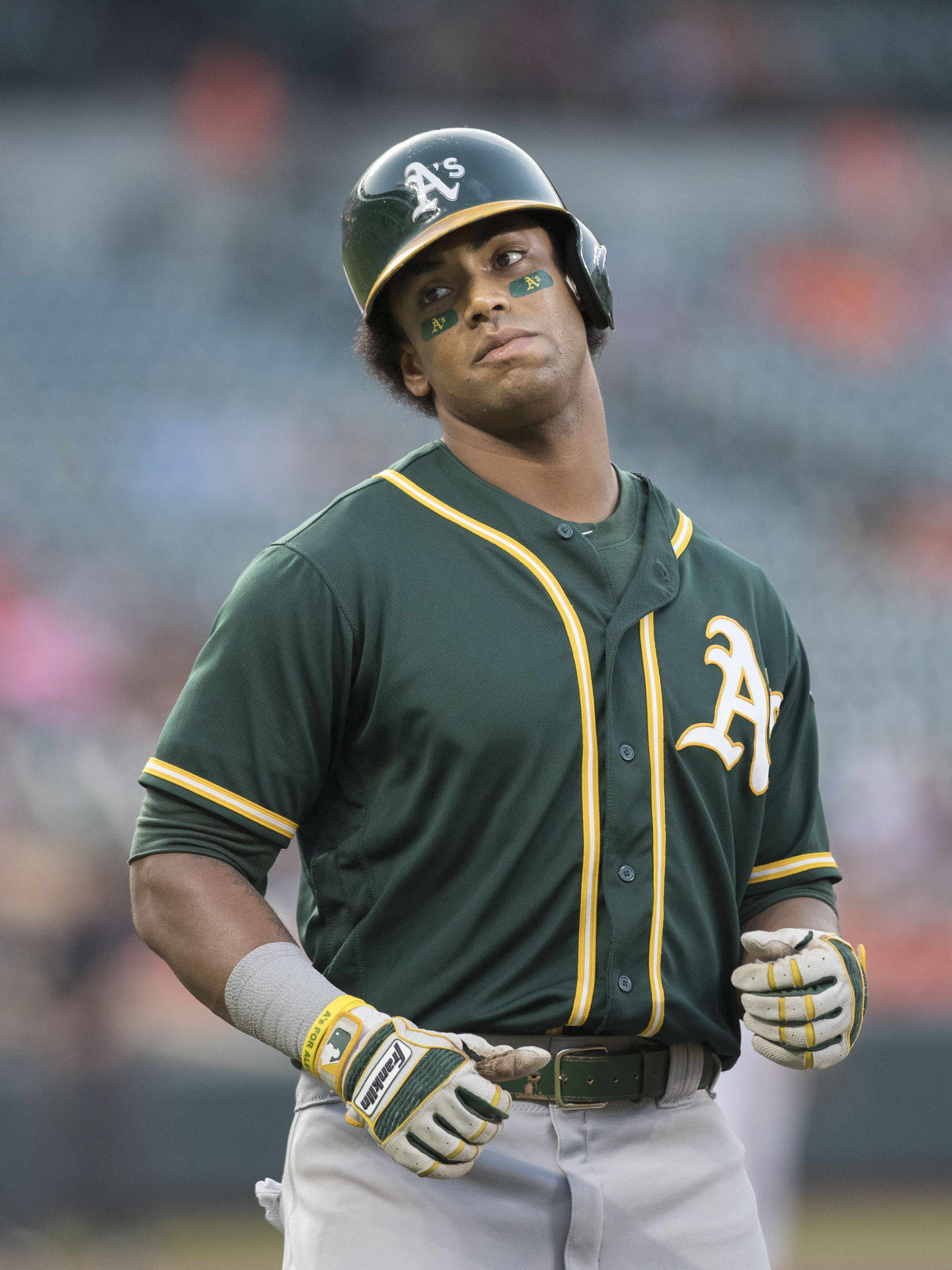 A's at Orioles 8/22/17